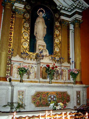 Marian altar from Pro-Cathedral, Dublin - no c/r my image